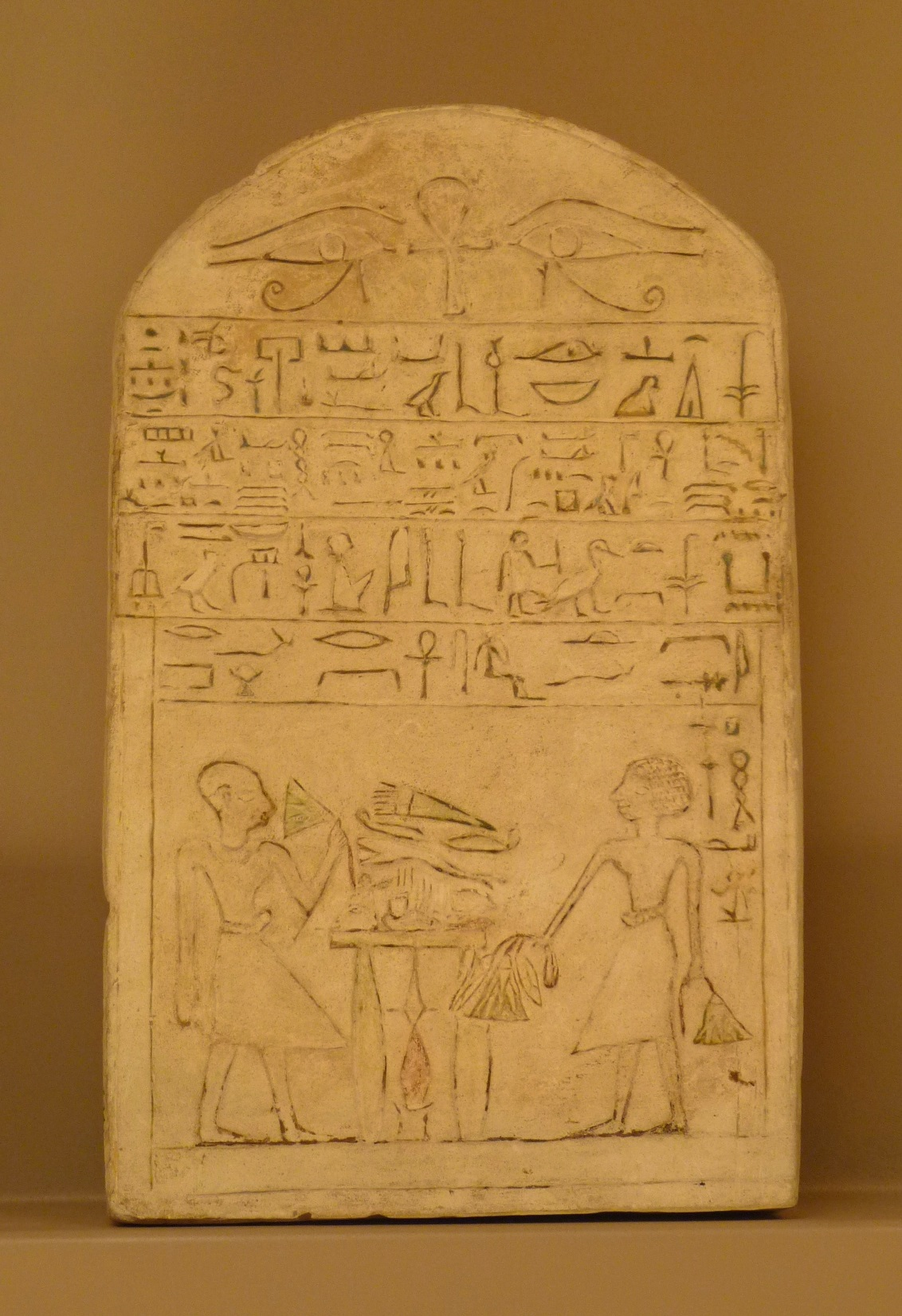 Stele which a servant, Ptah-aa (right) dedicated to his lord Bebi, who was the son of an unnamed king. Limestone with traces of painting, from Abydos, 13th dynasty, Middle Kingdom. Archeological museum of Bologna (Italy).